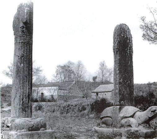 A bixi-supported stele and a fluted column from the Tomb of Xiao Xiu.